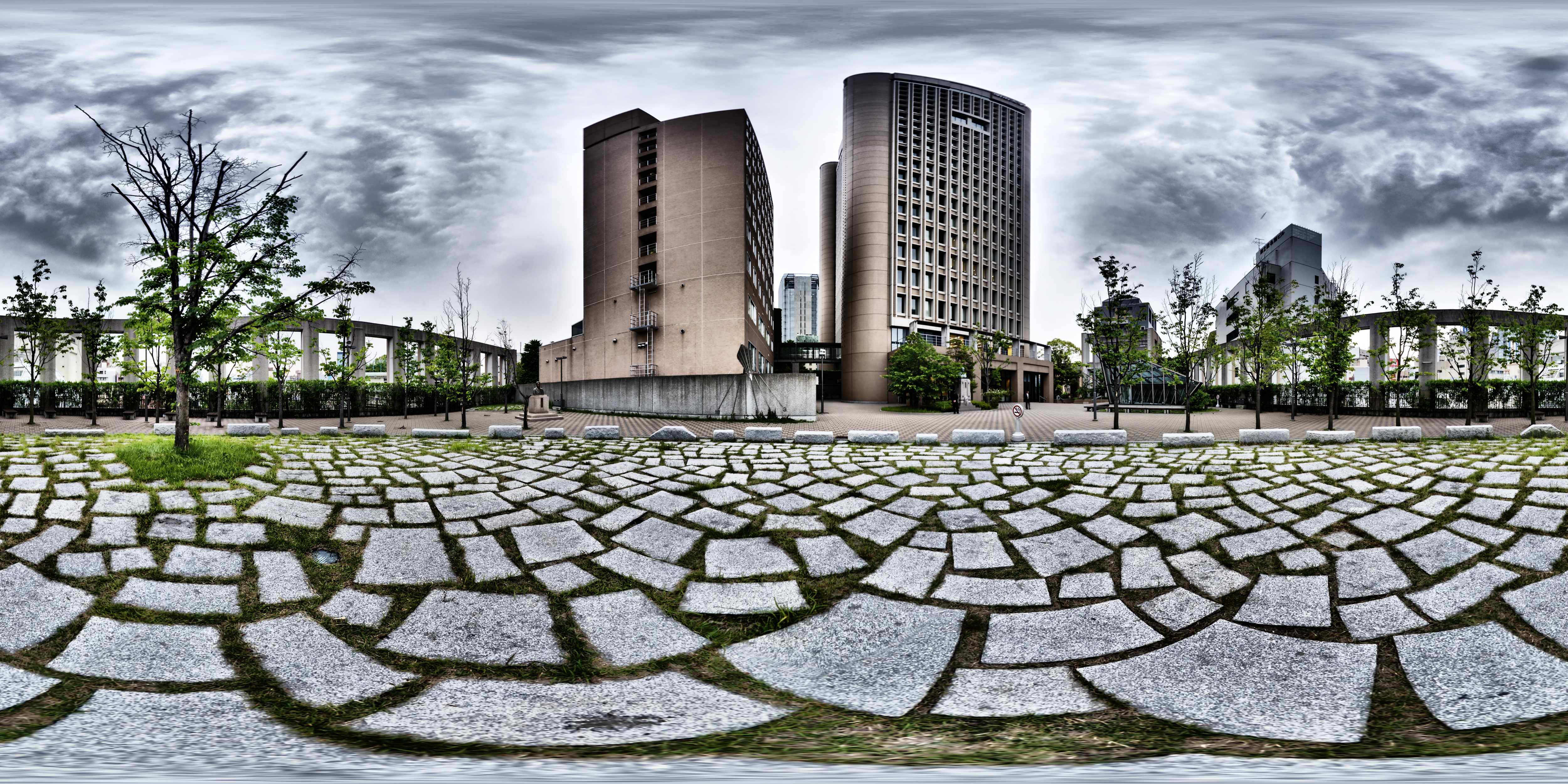 At Maiji University, Surugadai, Tokyo. Please enjoy in the interactive viewer! (thanks to fieldOfView and [/photos/aldo/ Aldo]) And small but quick interactive viewer is here (Wrapr Beta) - SLR camera and lens: Nikon D80 /w Sigma 8mm fisheye - panoramic head: handheld (with [/photos/simons/2311696634 Simon's "HaPaLa"]) - 4 pan (+15 degrees picth for 2, -15 degree picth for 2) datails 3EX(2EV) each. - software: ptgui, Photoshop, enfuse and Dynamic Photo HDR on MS-Windows XP See where this picture was taken. [?] [MAP by ALPSLAB]